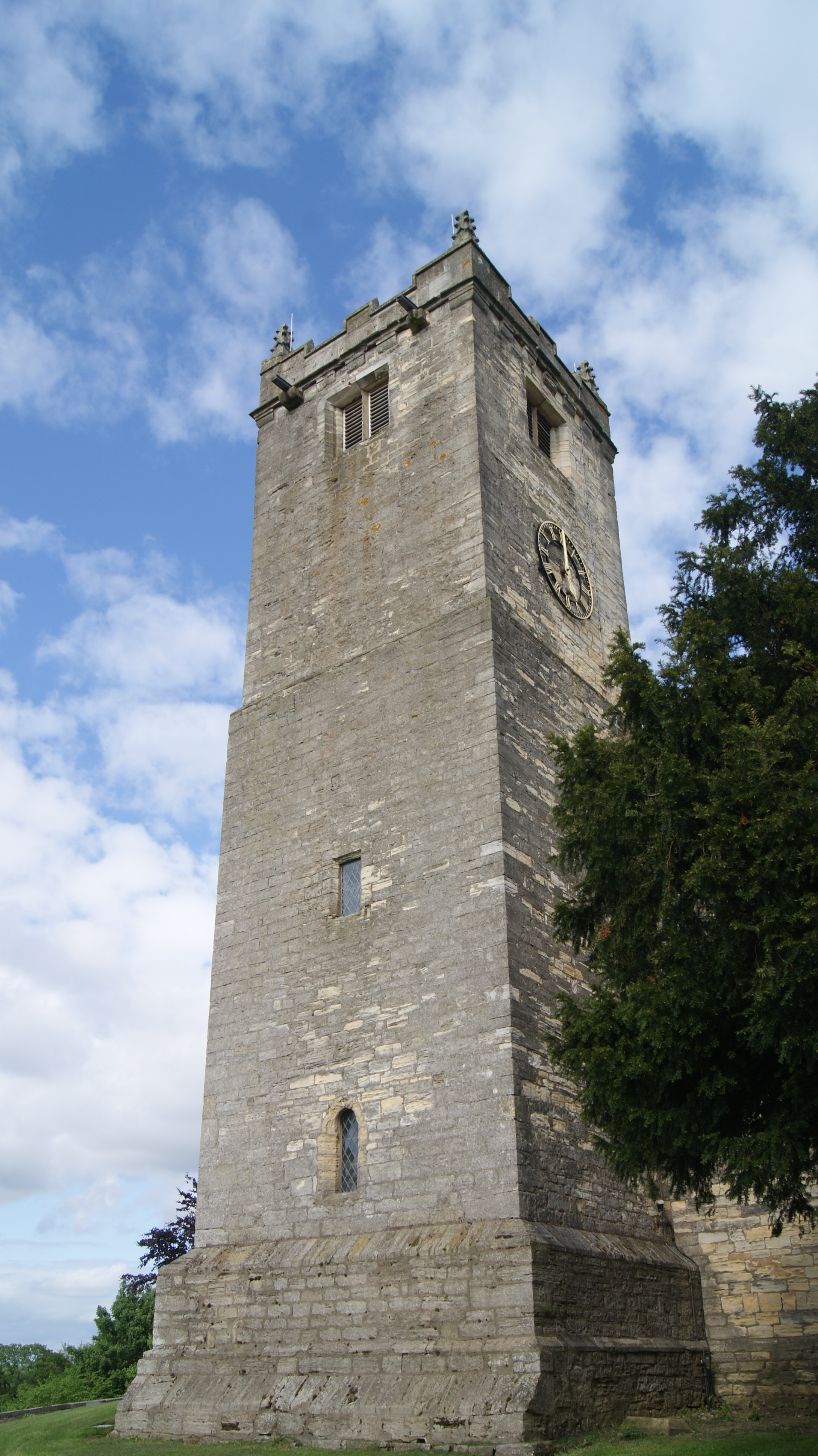 St. Peter's Church, Walton (near Wetherby), Leeds, West Yorkshire. Taken on the evening of Tuesday the 24th of May 2016.